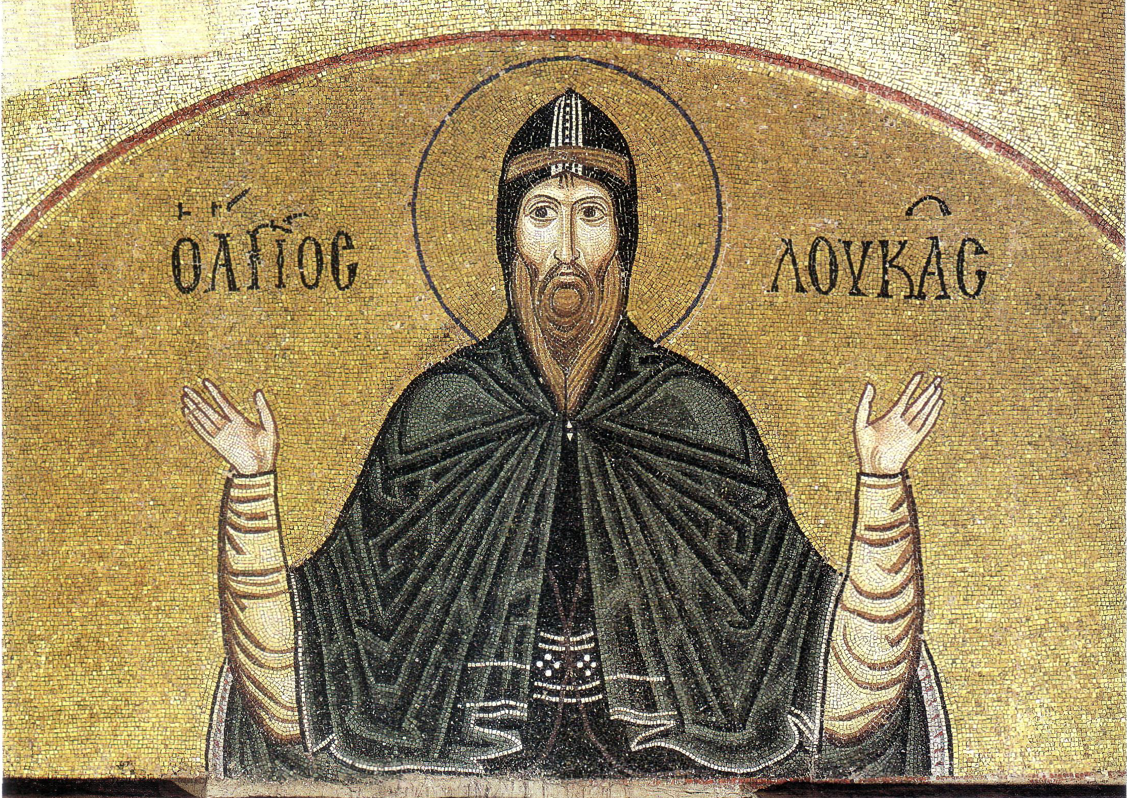 St. Lukas (mosaic in Hosios Loukas)